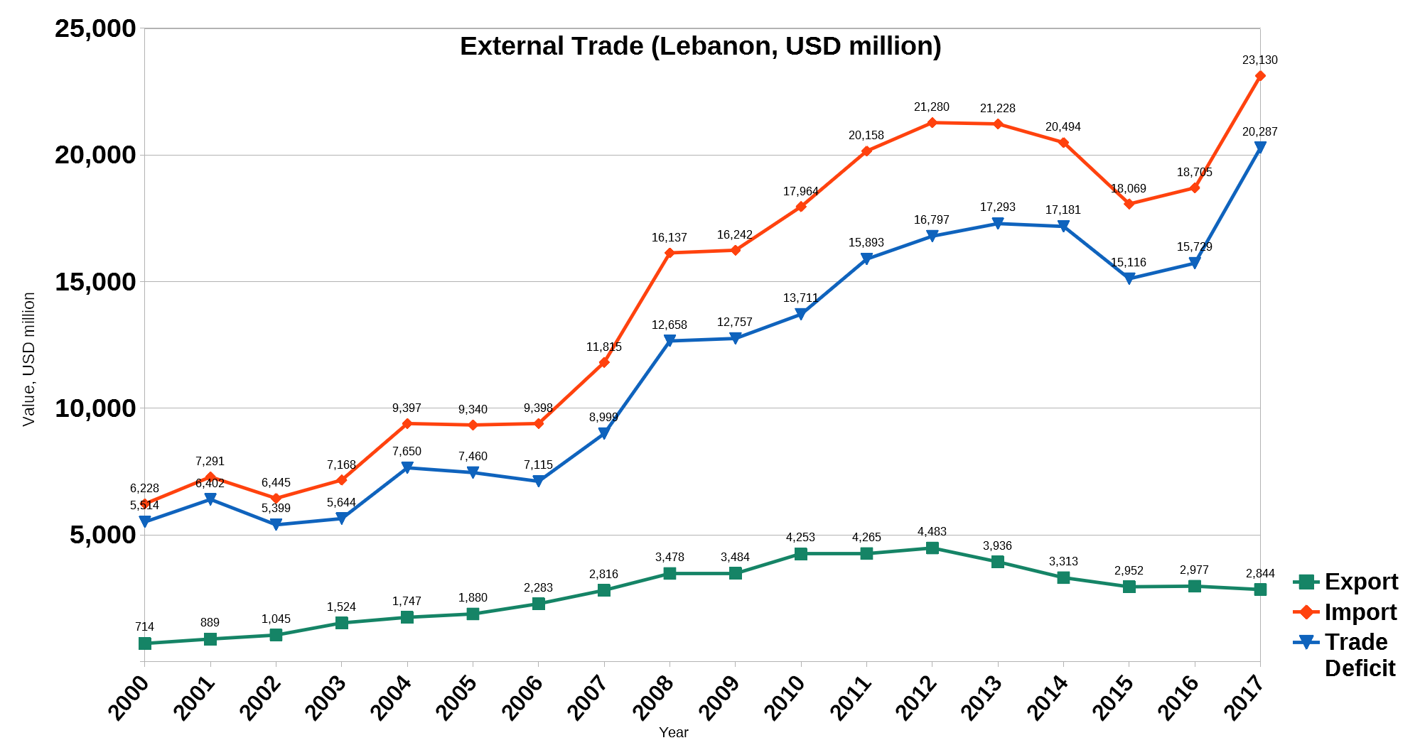 Lebanon external trade. Years 2000-2017. Ministry of economy.